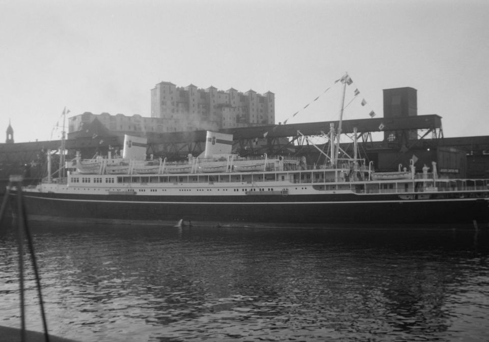 Cruise ship "Pilsudski" moored in the Port of Montreal.